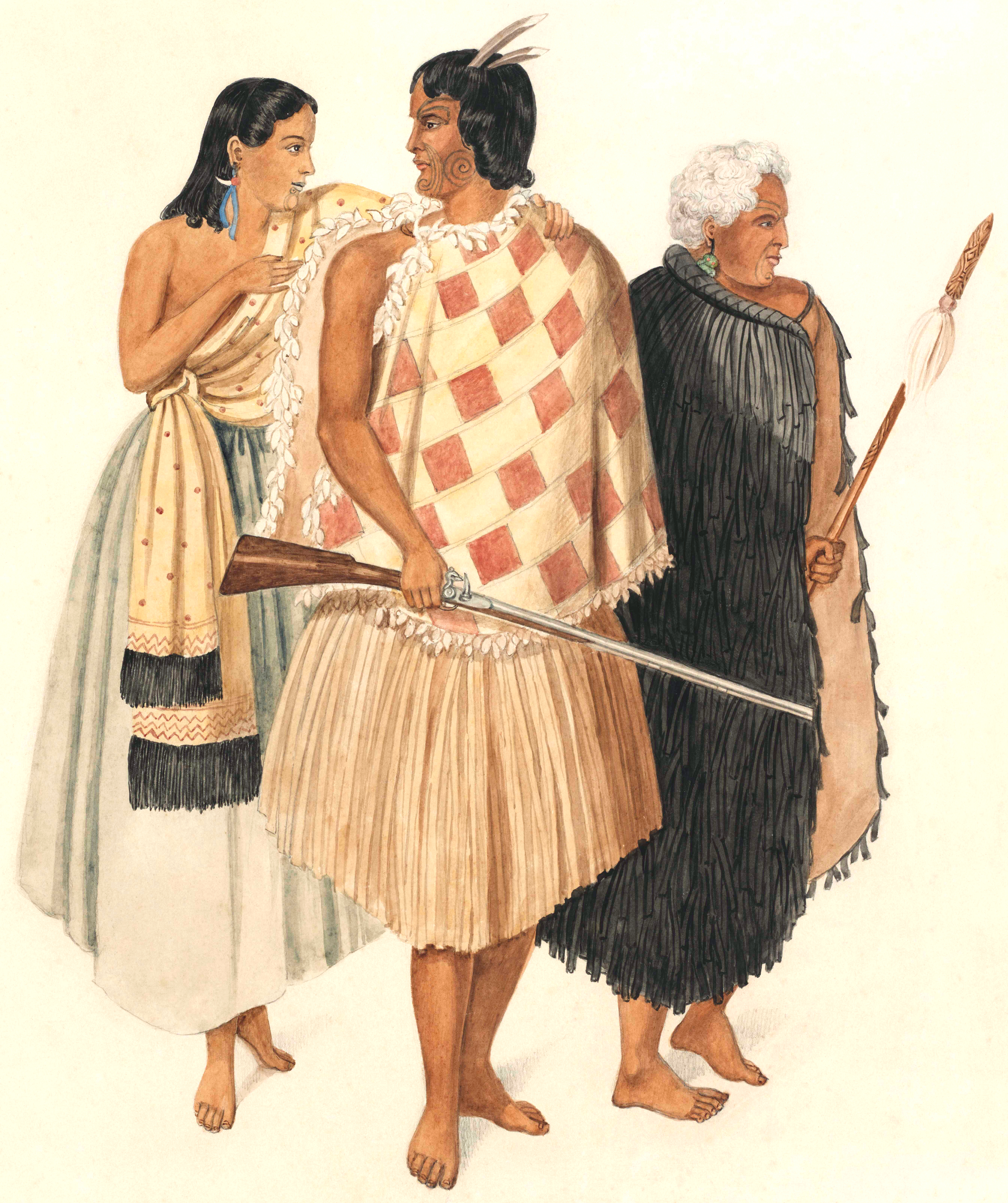 Shows Harriet, (Heke's wife), Hone Heke and Kawiti. Harriet (Hariata) is on the left in a European skirt, a Maori cloak worn as a stole around her upper body and tied at the waist, leaning on Heke's shoulder. Heke stands centrally, holding a rifle and wearing a short checked flax and feather cloak and flax skirt. His uncle Kawiti is on the right in a flax cloak, holding a taiaha.